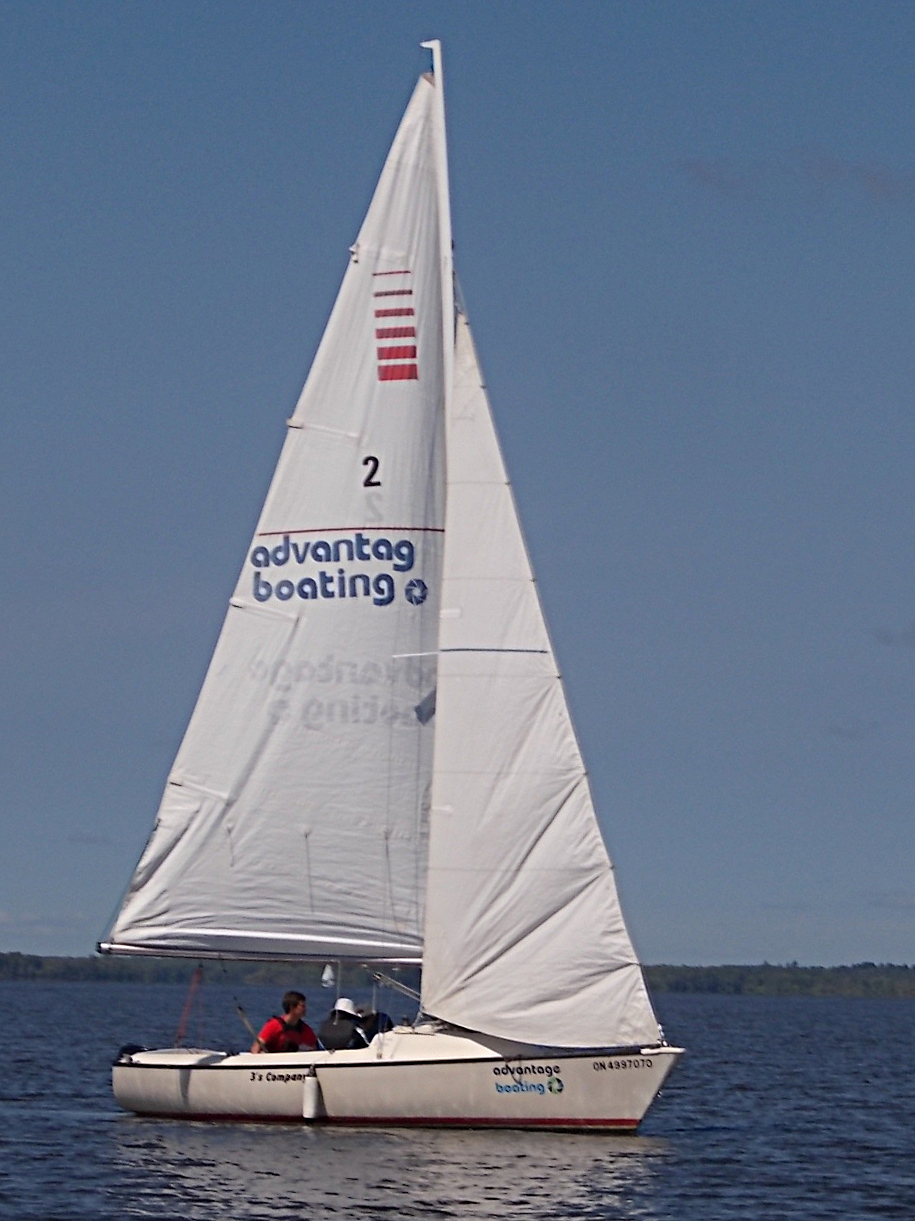 Sonar Sailboat, 3's Company, on Lac Deschênes, part of the Ottawa River, Ottawa, Ontario, Canada